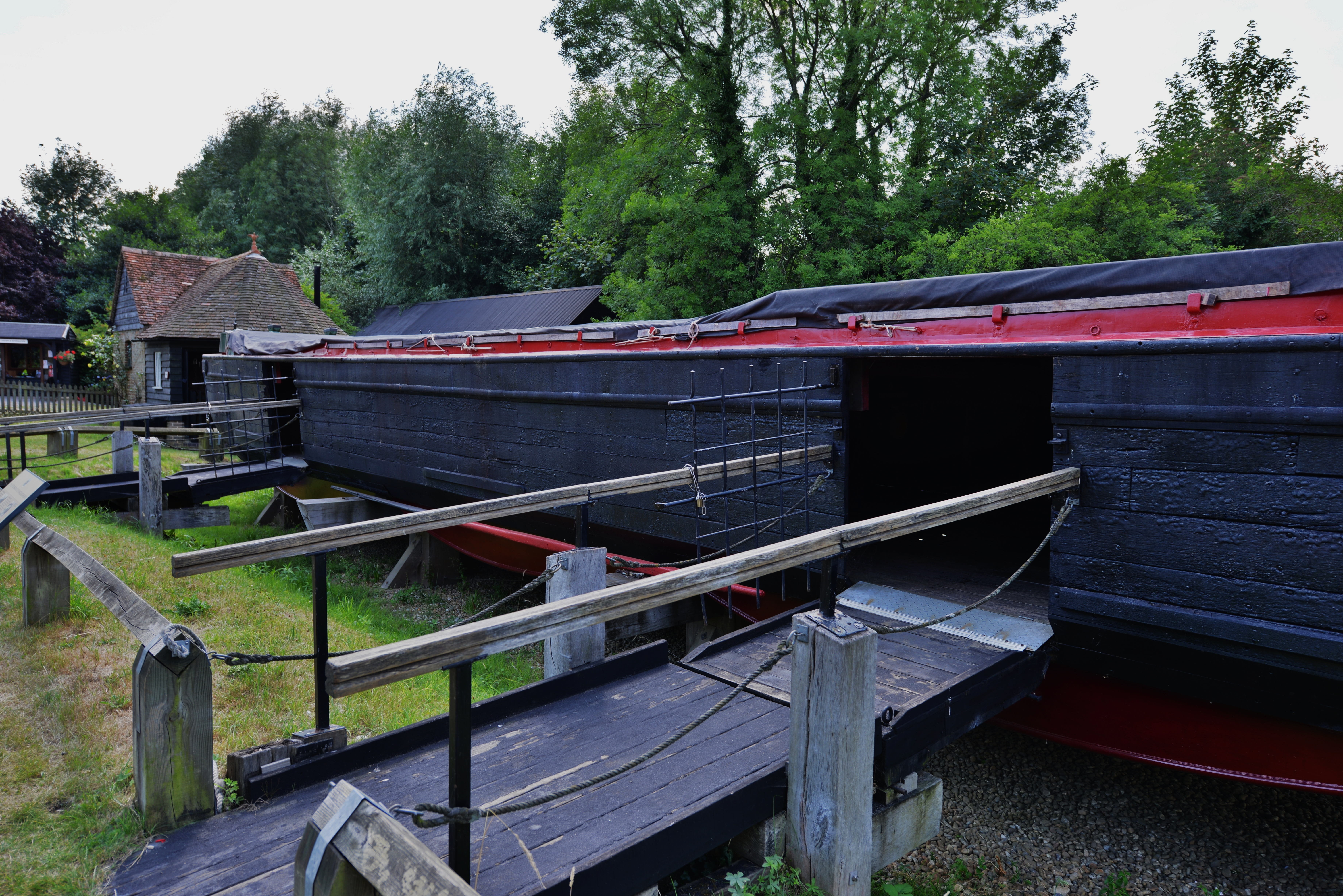 Photo by Michael Garlick